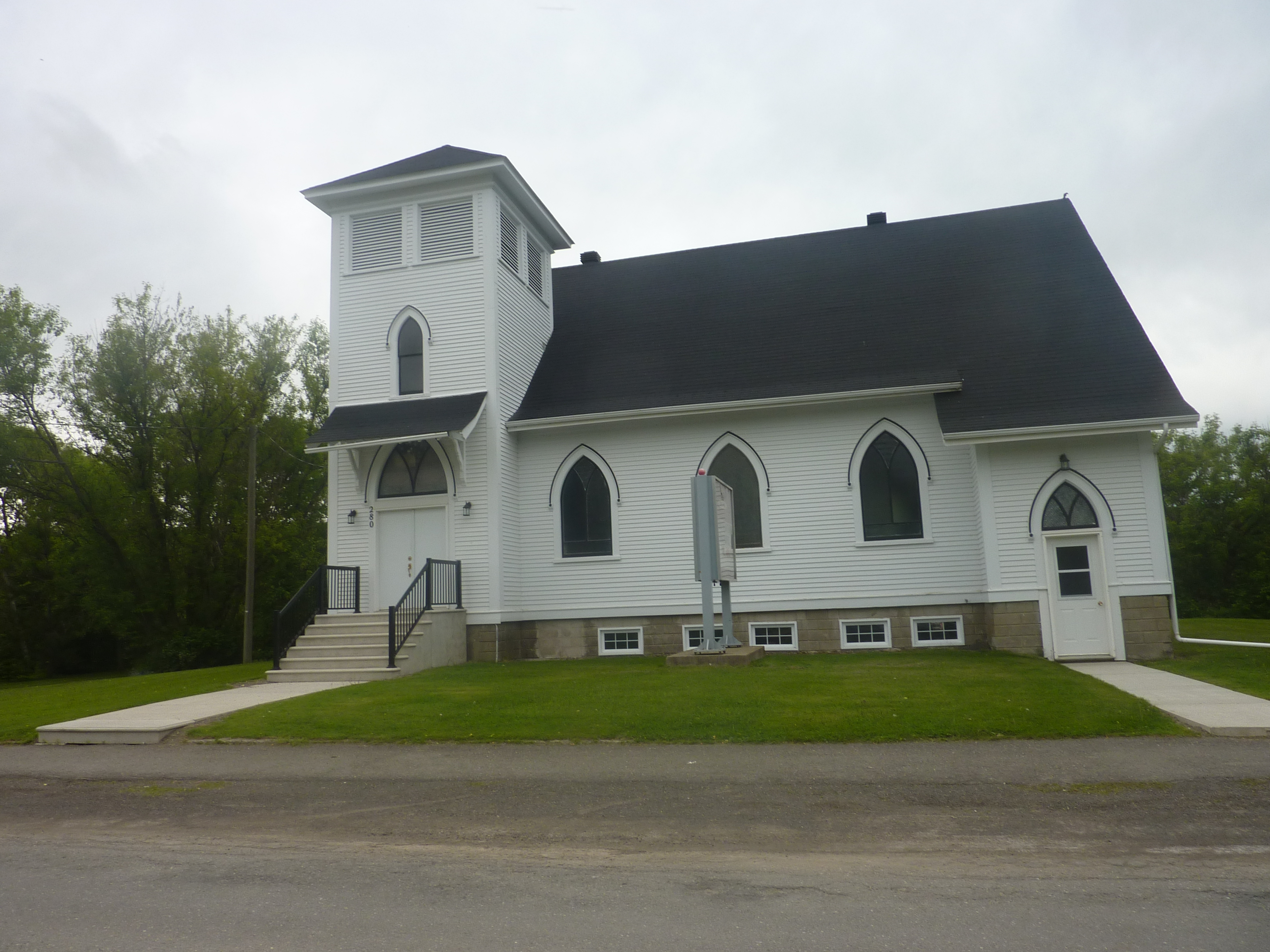 Aroostook Baptist Church, New Brunswick